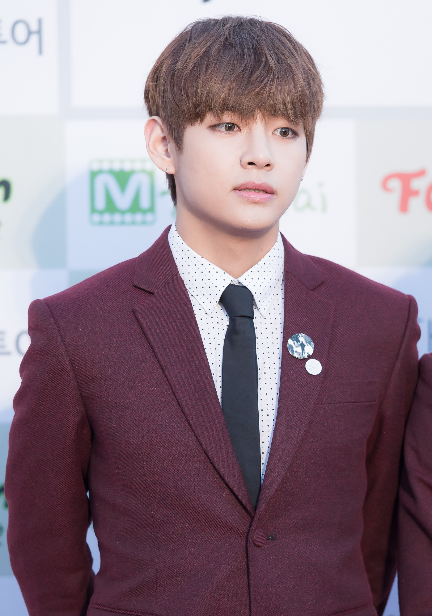 V (Kim Taehyung) at the 2016 Gaon Chart K-Pop Awards Red Carpet